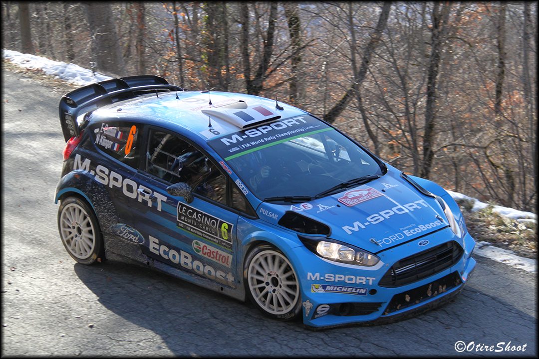 Eric Camilli in the Monte Carlo Rally in 2016 overcomes 6 OS